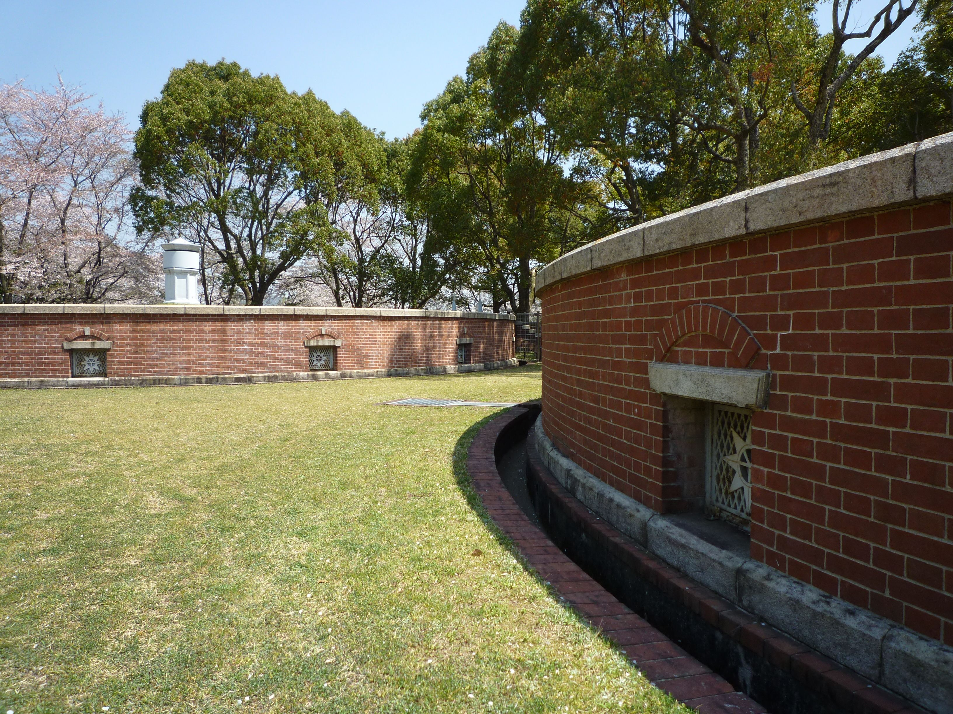 Handayama Botanical Garden (Kita-ku, Okayama city, Okayama Prefecture, JAPAN.)